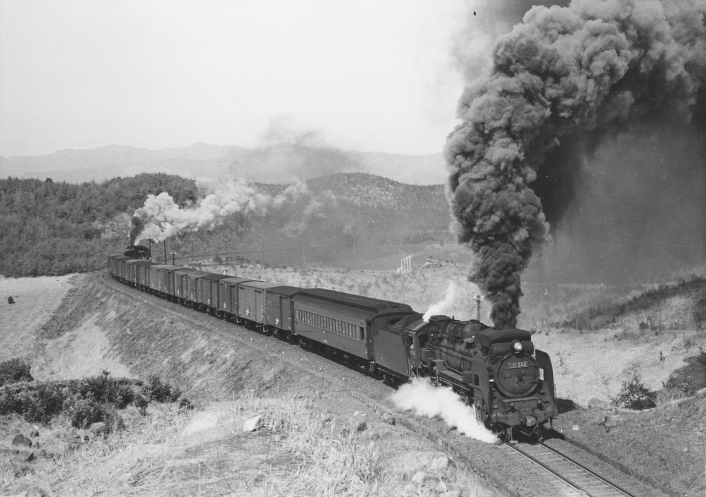 JNR Hisatsu Line mixed passenger and freight train hauled by D51 545 and banked by D51 890(JNR Hisatsu Line Okoba Station - Yatake Station)